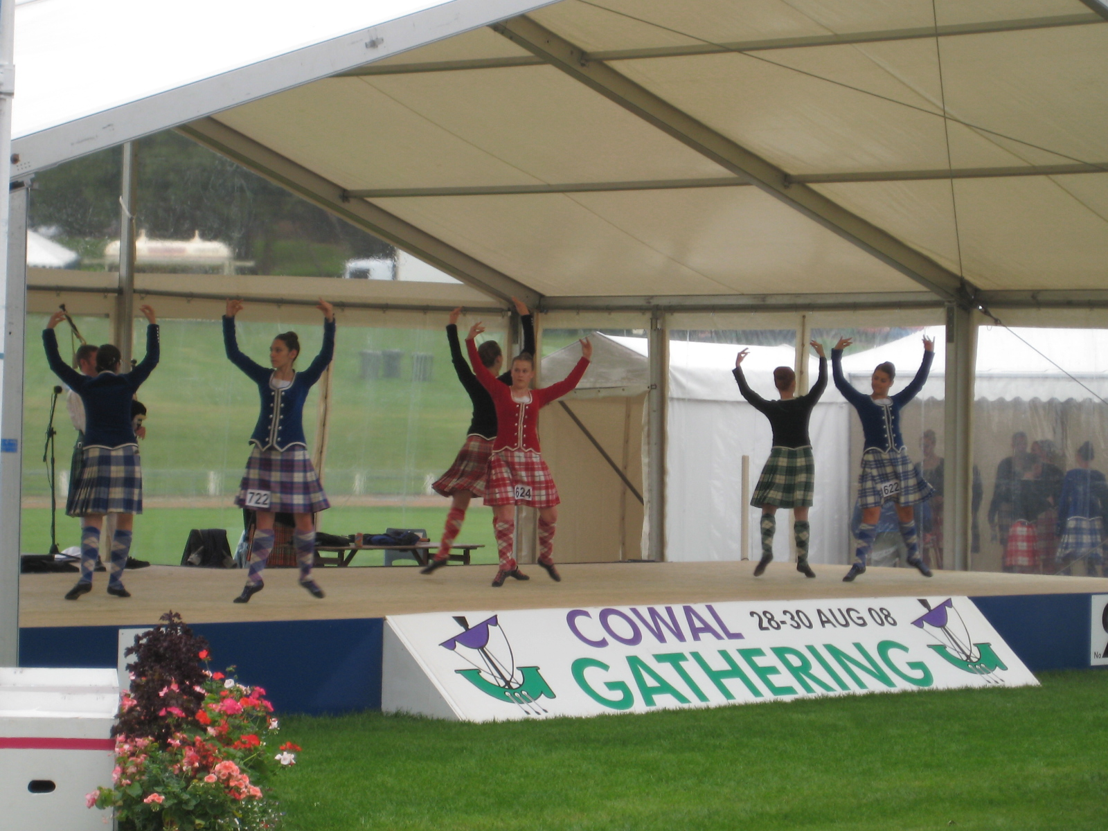 Highland dancers at the 2008 Cowal Highland Gathering.